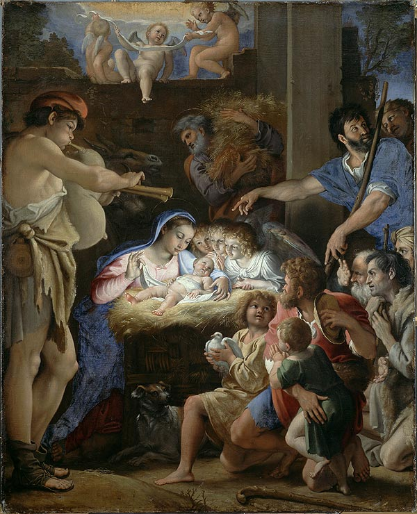 Domenichino (Domenico Zampieri), The Adoration of the Shepherds, c. 1607-10, Oil on canvas, 143 x 115cm, National Gallery of Scotland